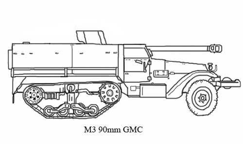 M3 Half-track with a 90mm AT gun.